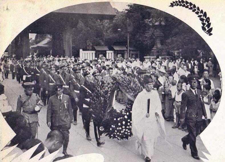 Hitlerjugend visit to Yasukuni Shrine State Shintō wreath procession, led by kannushi. The white dress Hitlerjugend belts were specially commissioned by the Reichsjugendführung Stab (Reich Youth Directorate staff) for this event, to contrast with the uniform and make them look smarter; they were not the normal official dress issue.